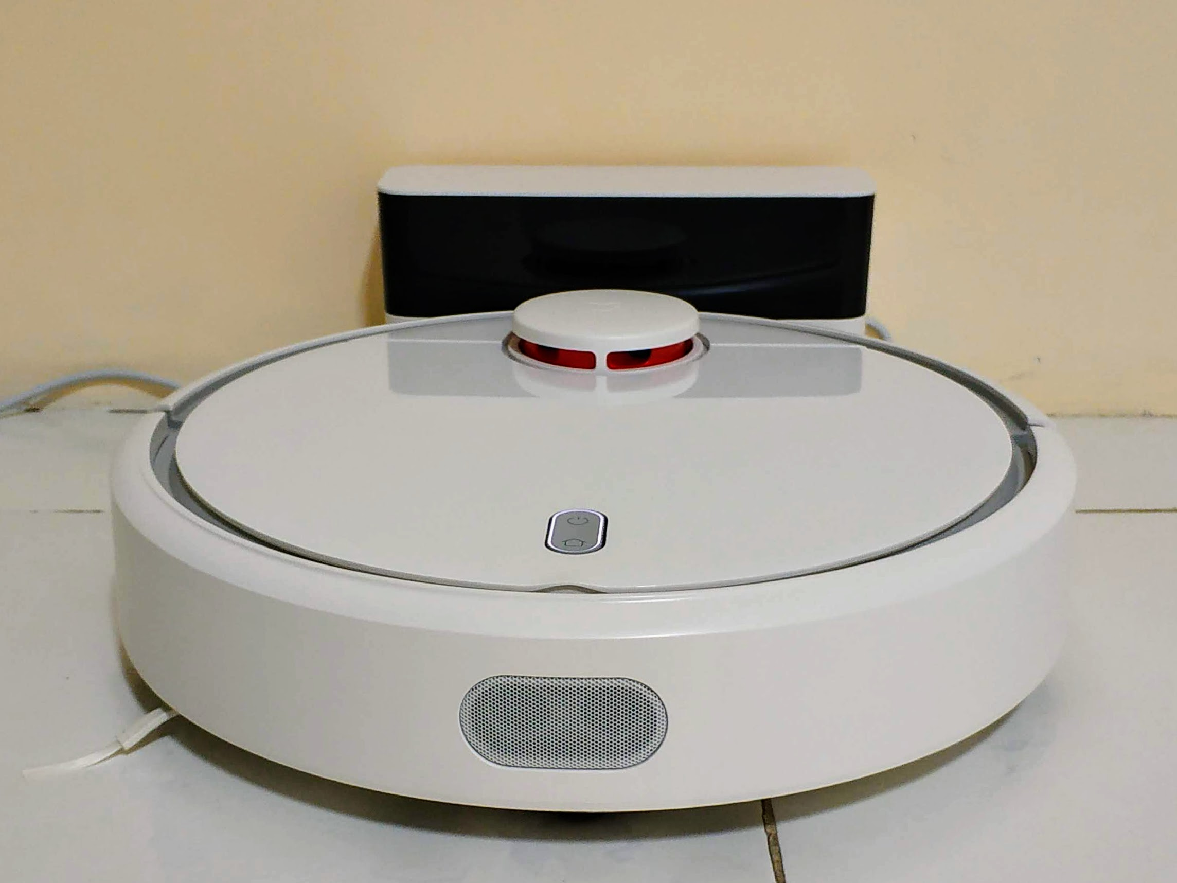 Xiaomi robot vacuum